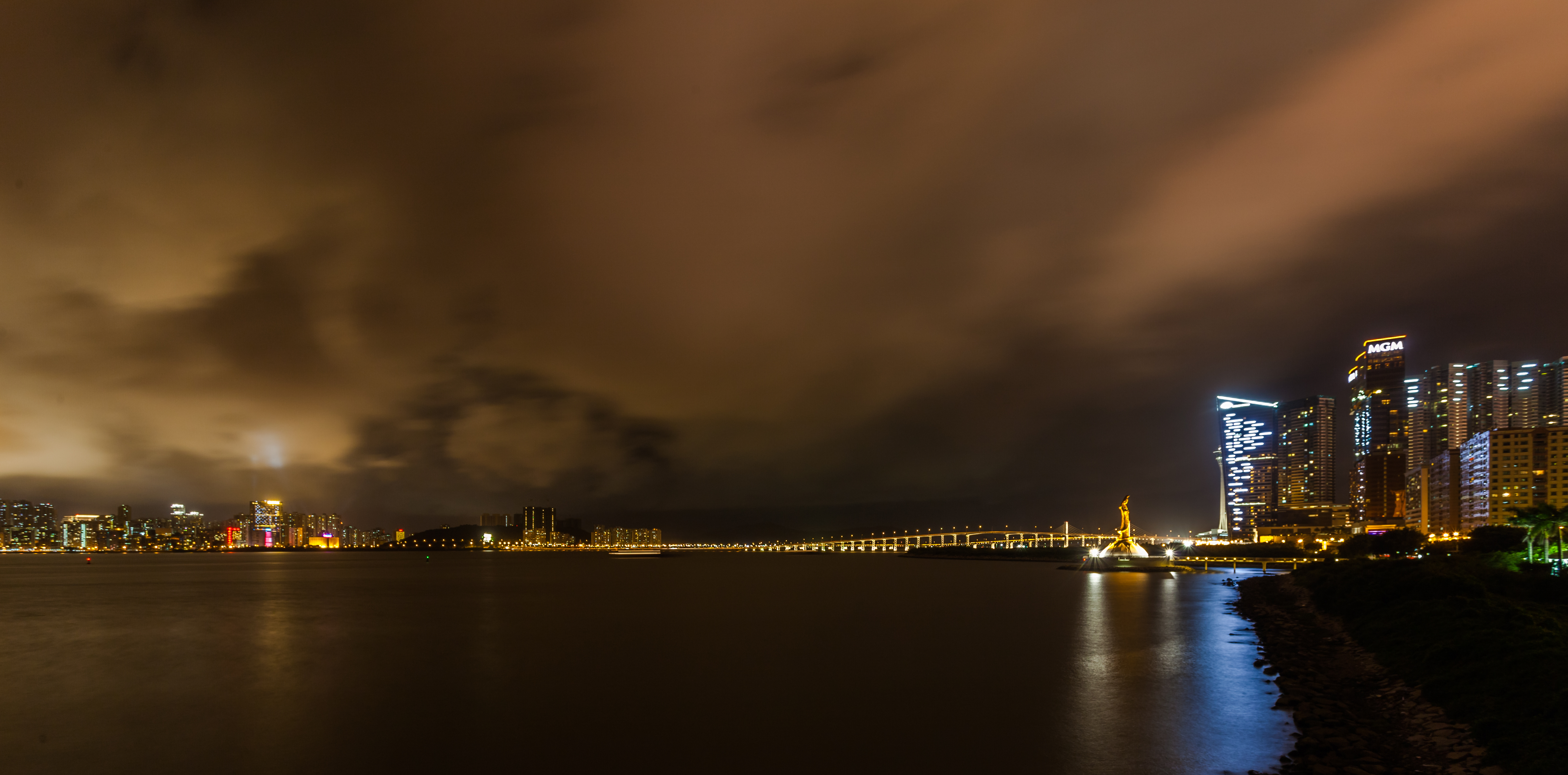 East China See between Taipa and the Macau Peninsula, Macau